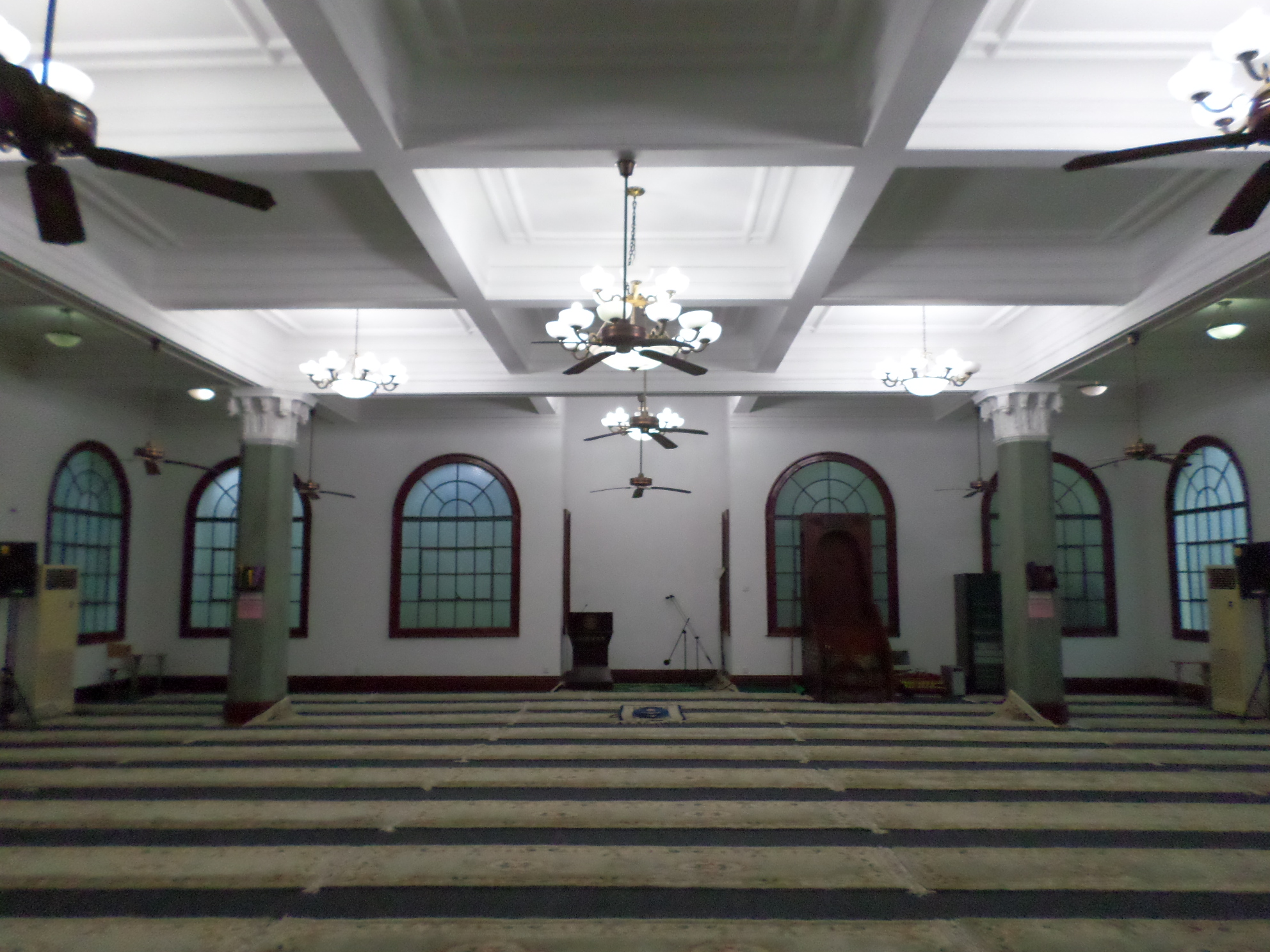 Xiaotaoyuan Mosque, Huangpu District, Shanghai, China